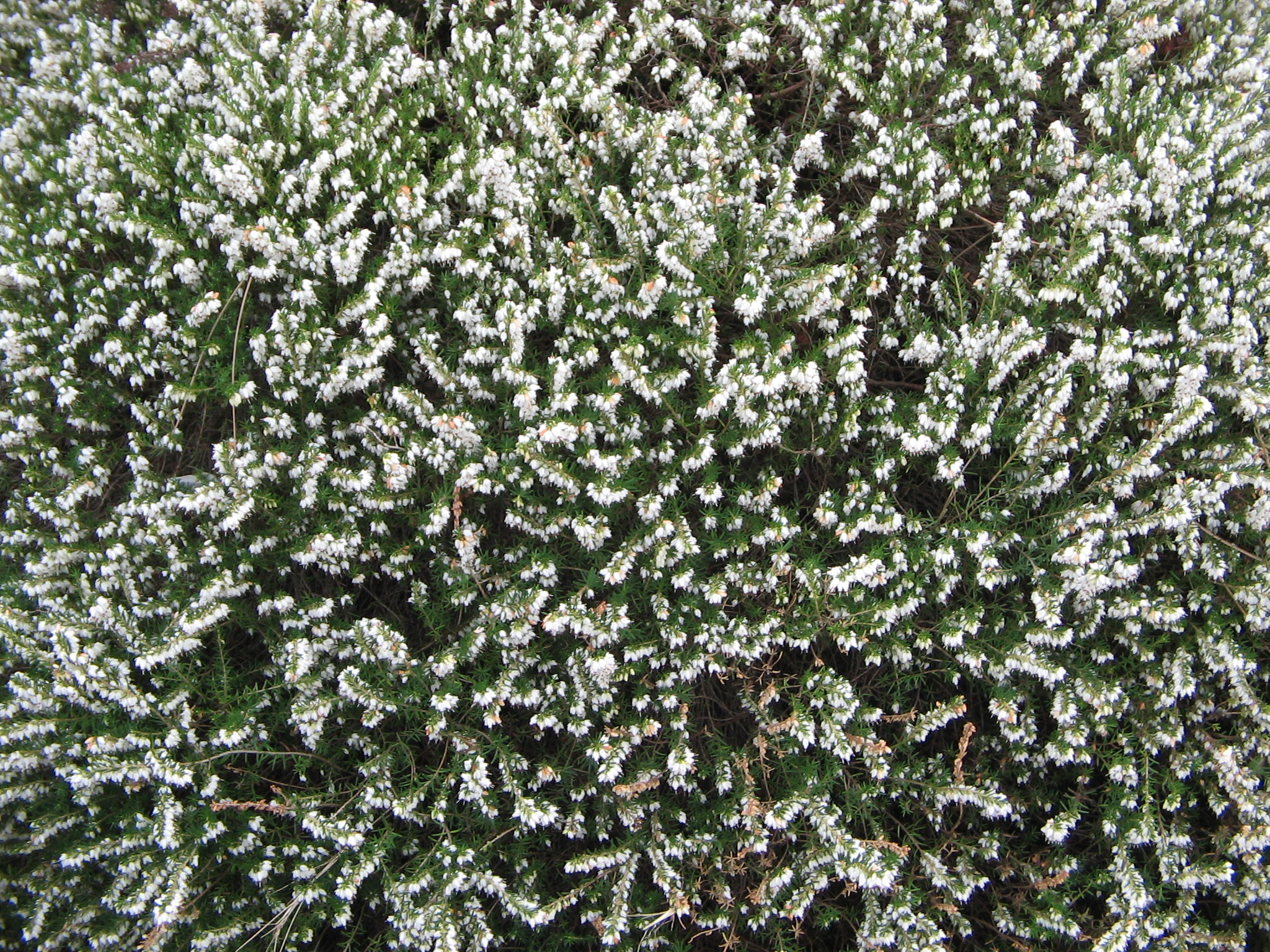 Erica × darleyensis 'Silberschmelze'